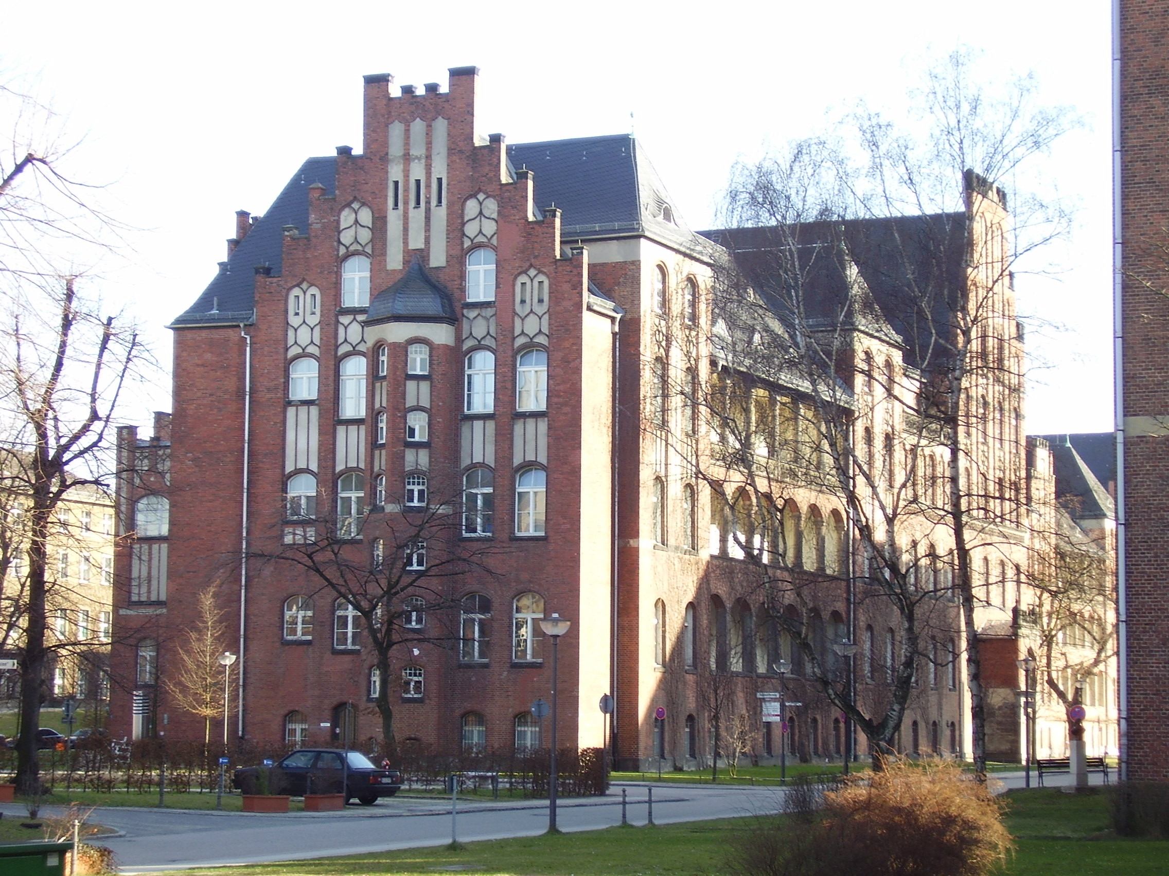 Berlin, Medical University, Hospital, Charité Campus Mitte (CCM)